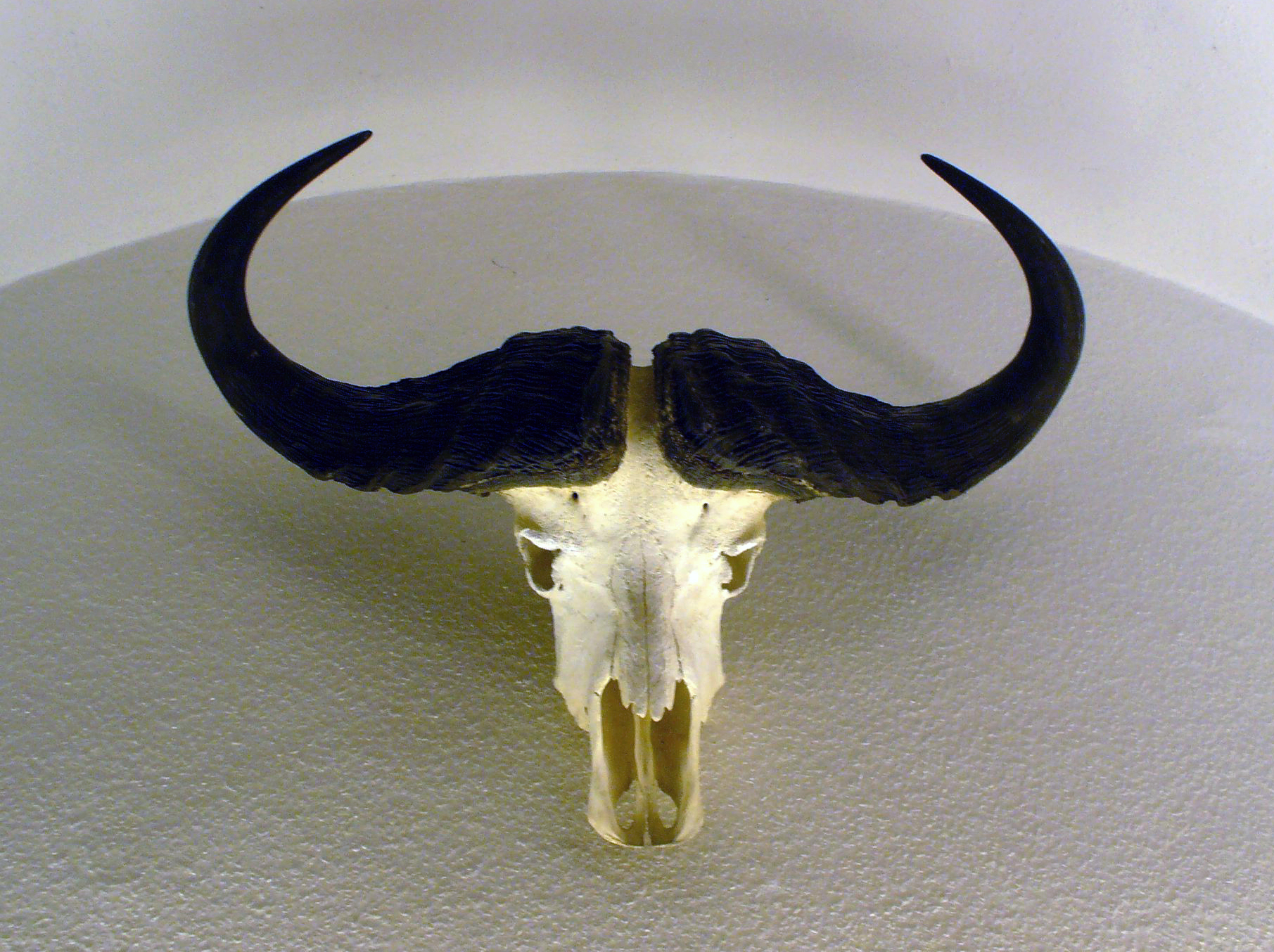 Horns of African Buffalo (Syncerus caffer)